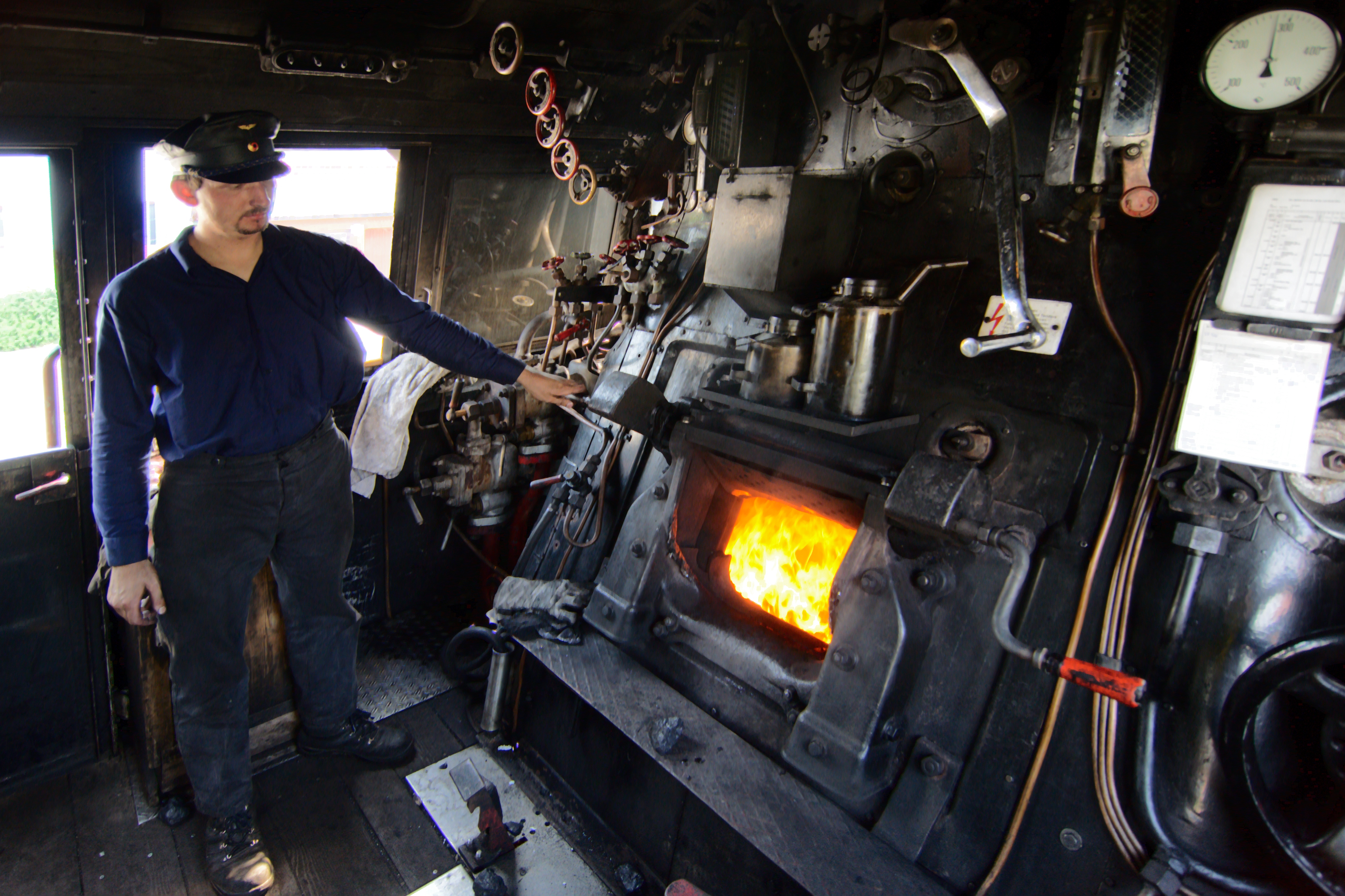 Fireman at work on the german DRB Class 52 7409 named Stadt Würzburg.